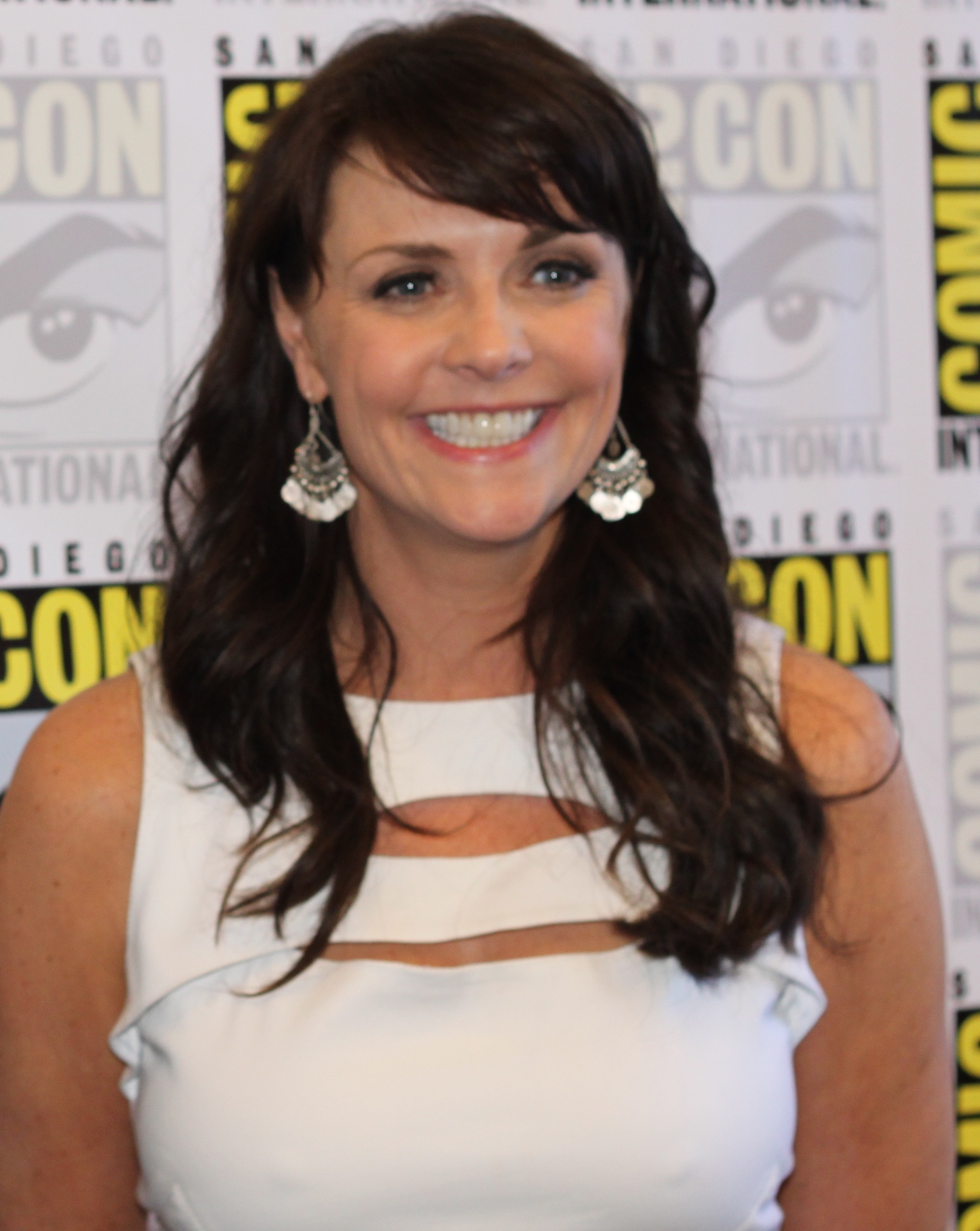 Amanda Tapping at Comic Con 2011